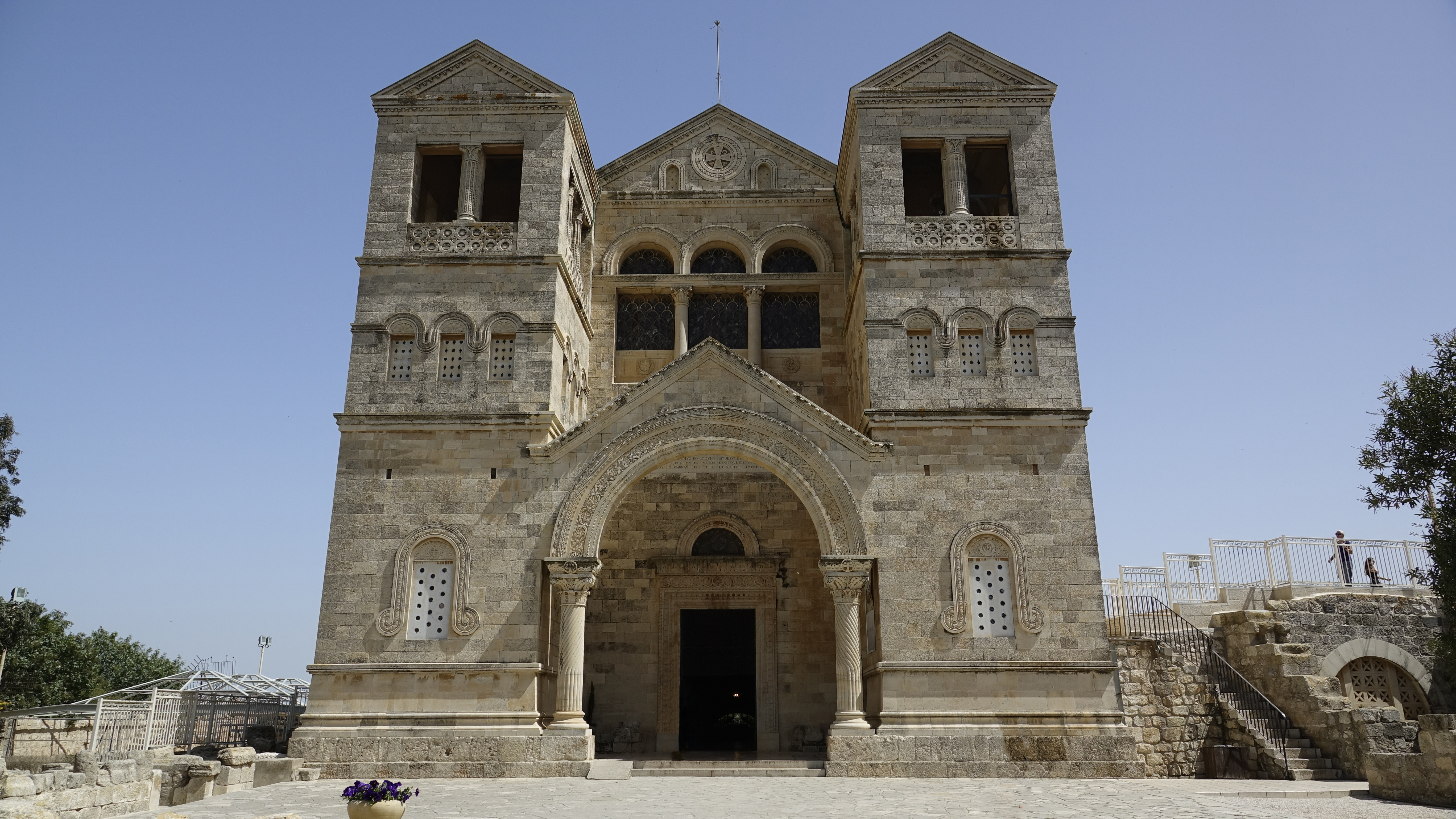 This is the Church of the Transfiguration located on the top of Mt. Tabor in Israel